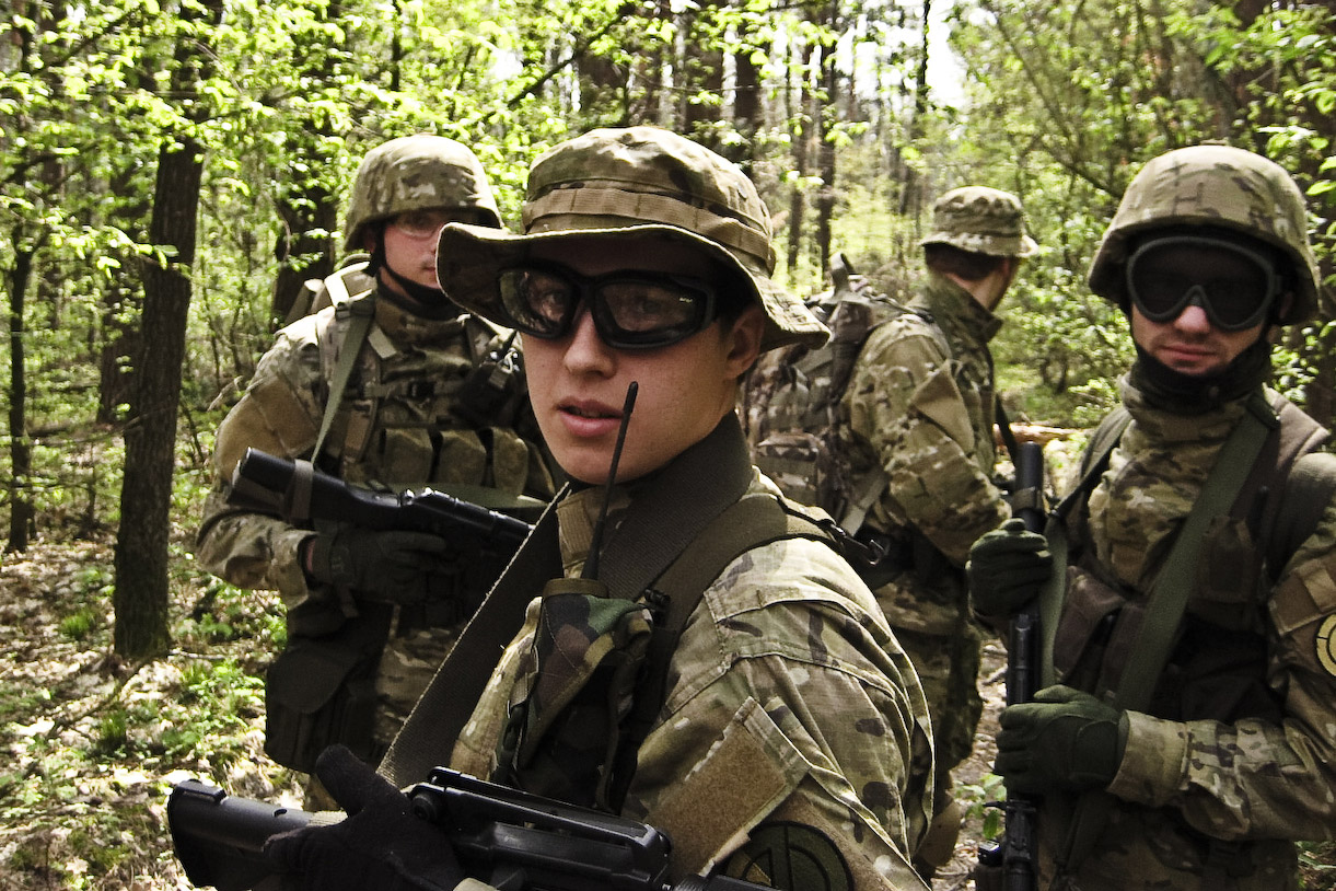 Members of the 2nd company of the Liberation Army(Project "Airsoft Real War)